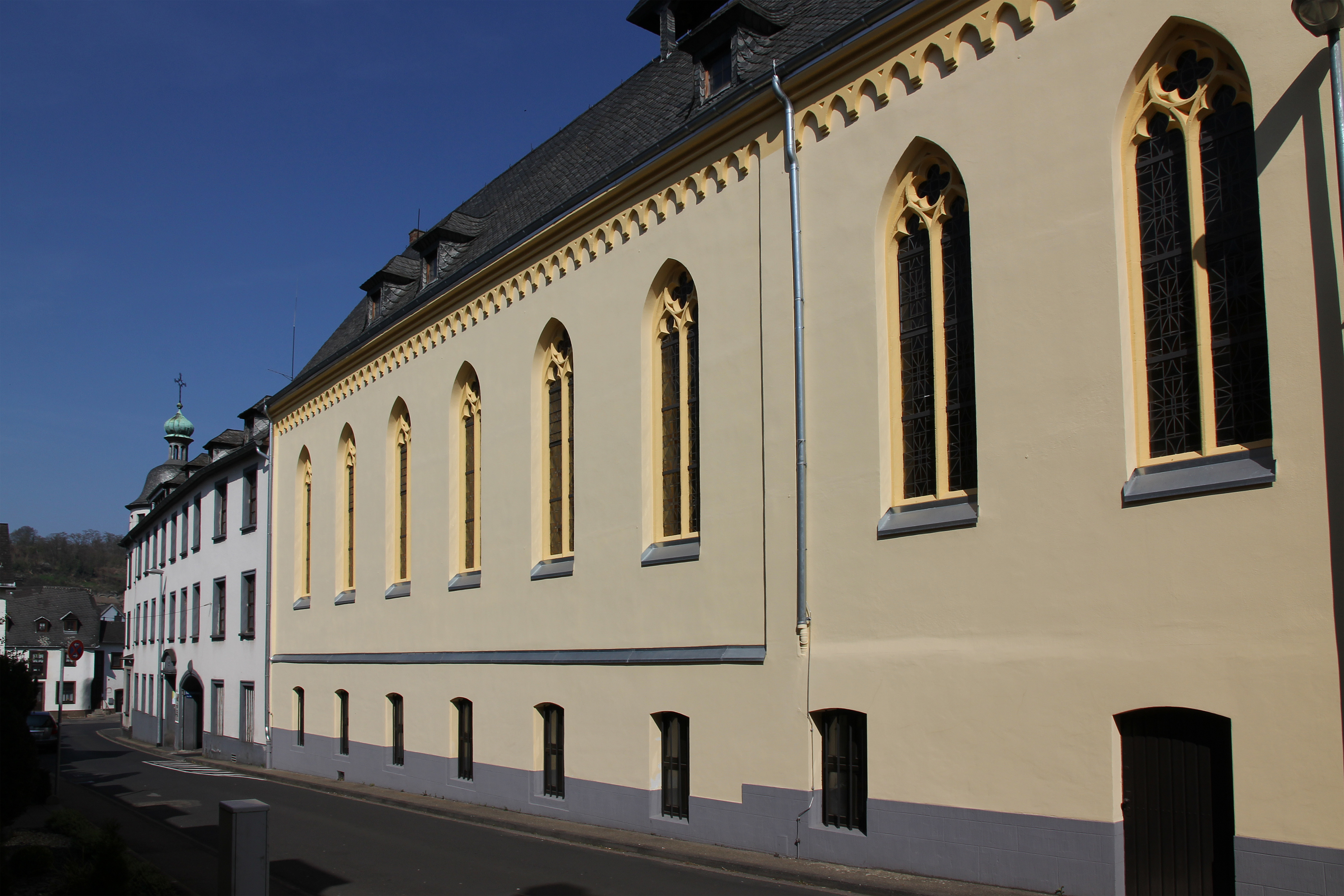 Former monastary of Salesian Sisters in Koblenz